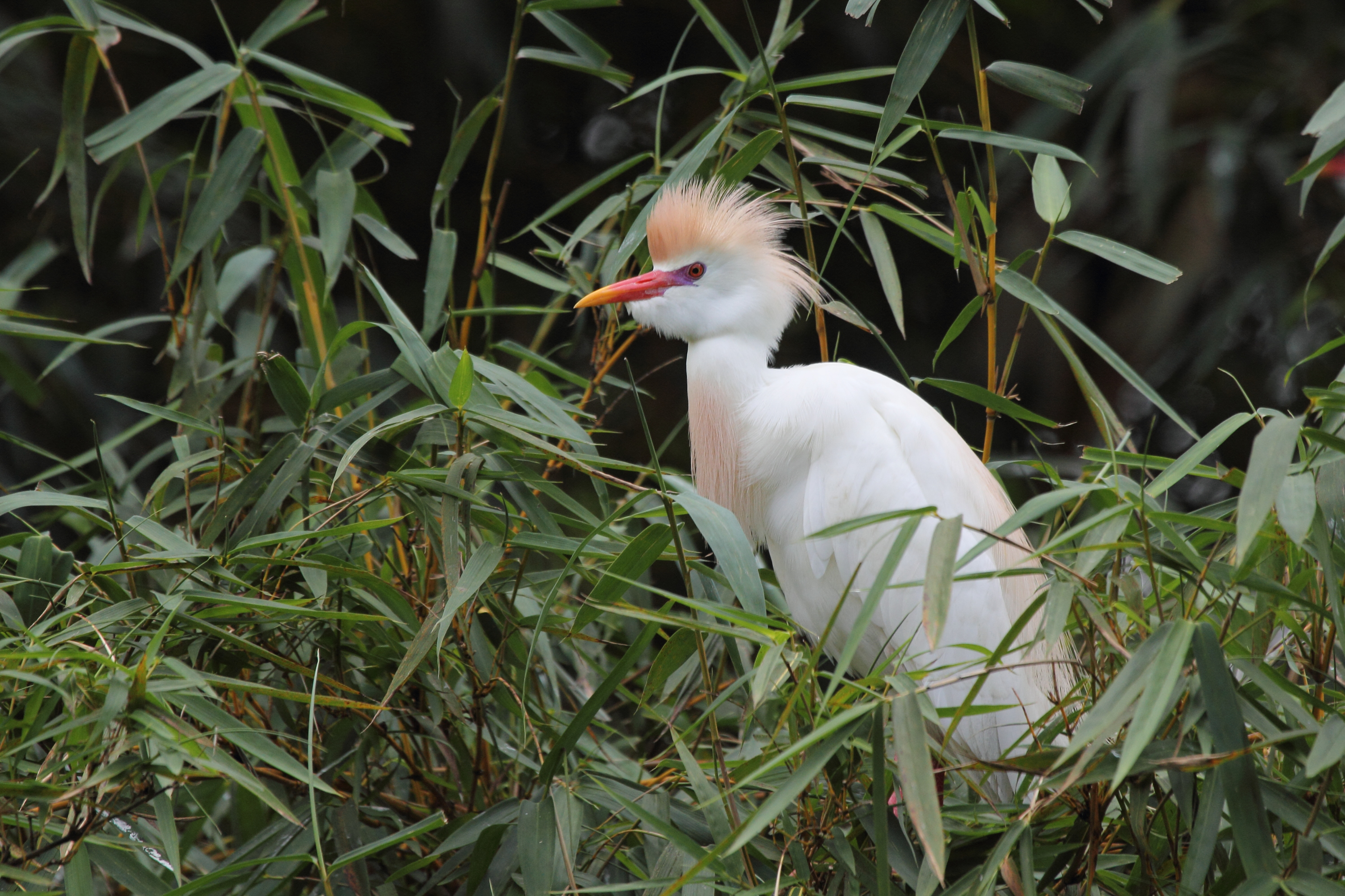 Photographed at CATIE, outside of Turrialba, Costa Rica.